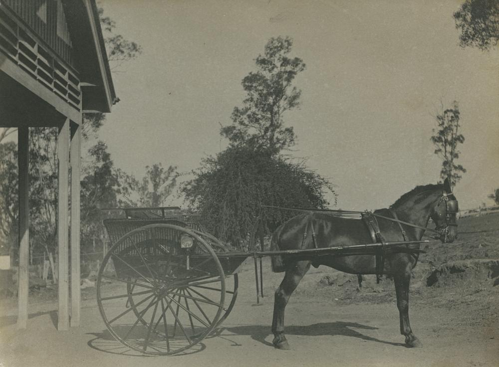 Bubbles the horse harnessed into a pony trap outside 'Warwillah', Indooroopilly, Brisbane, 1900 Photographs taken from an album belonging to Pascoe Grenfell Stuart, private secretary to the Queensland Governor, Lord Lamington.